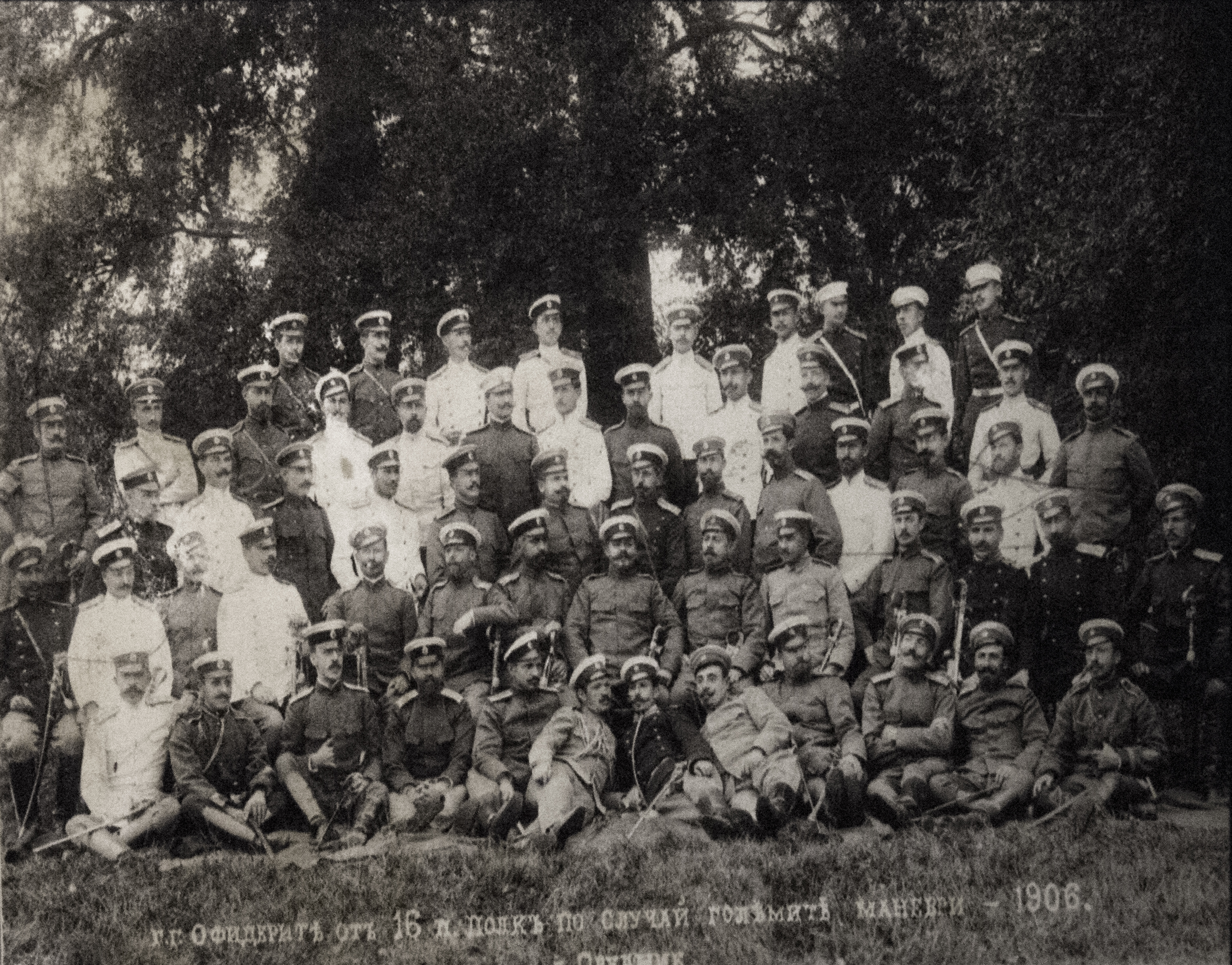 This photo was uploaded during the creation of the first wiktown in Bulgaria WikiBotevgrad.